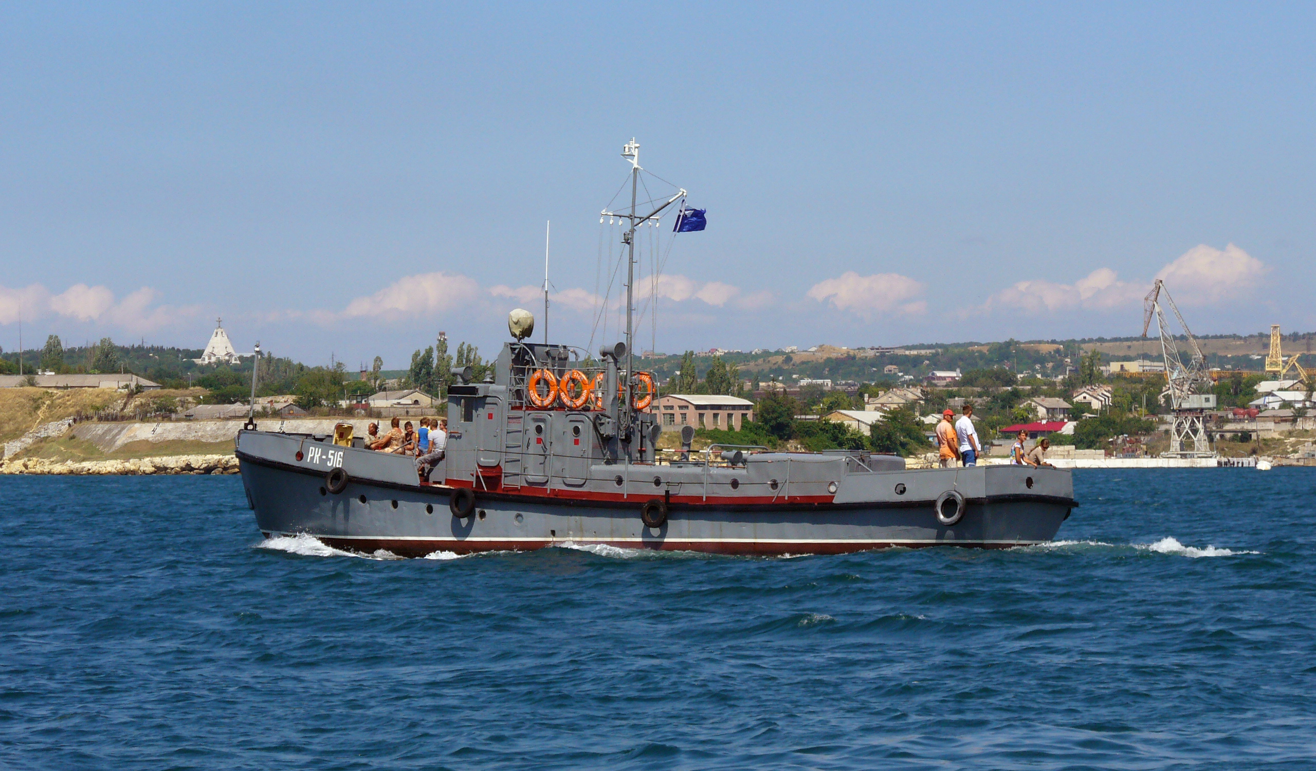 "RK-516" boat. This photo is made in the Southern bay of Sevastopol.